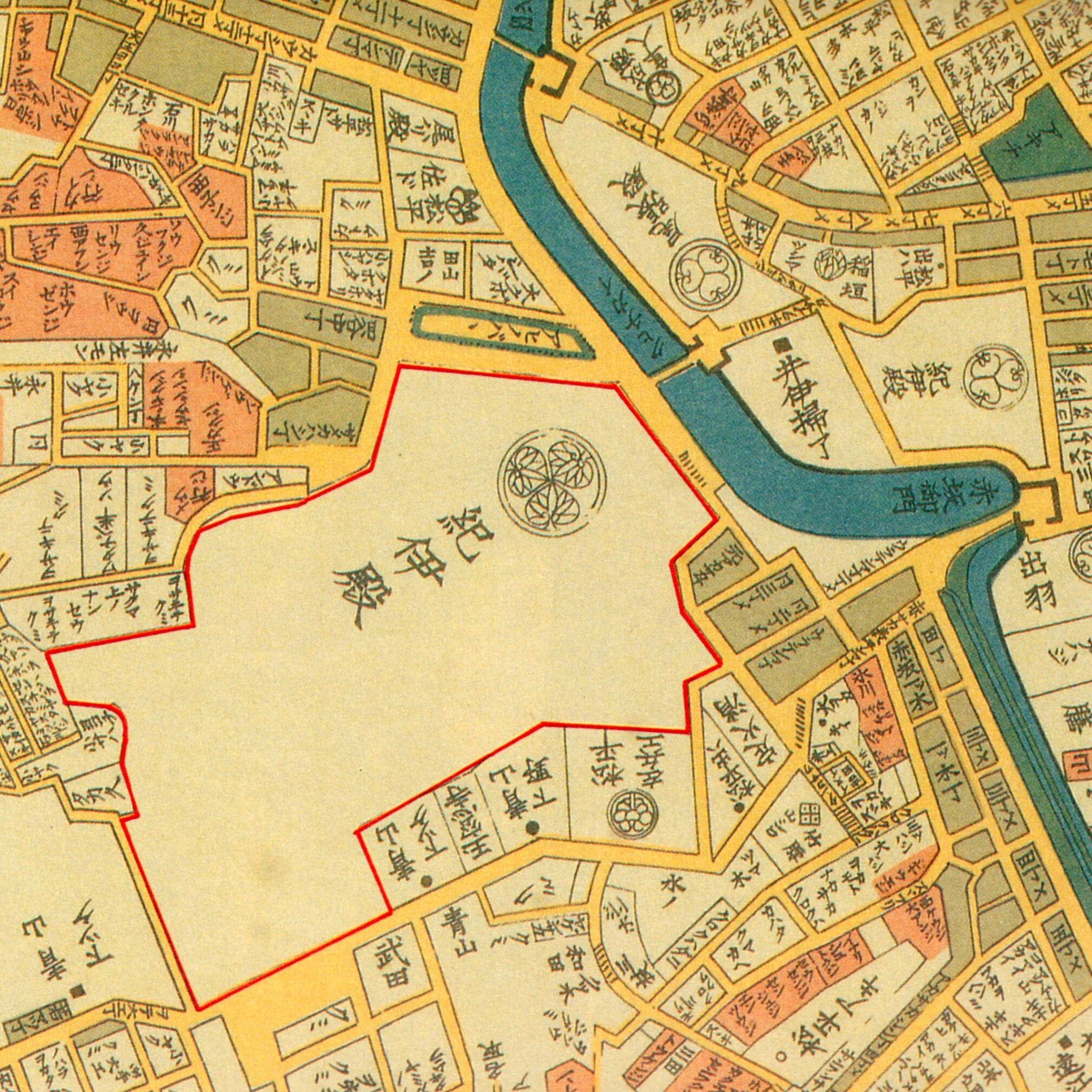 Kii-Tokugawa residence at edo